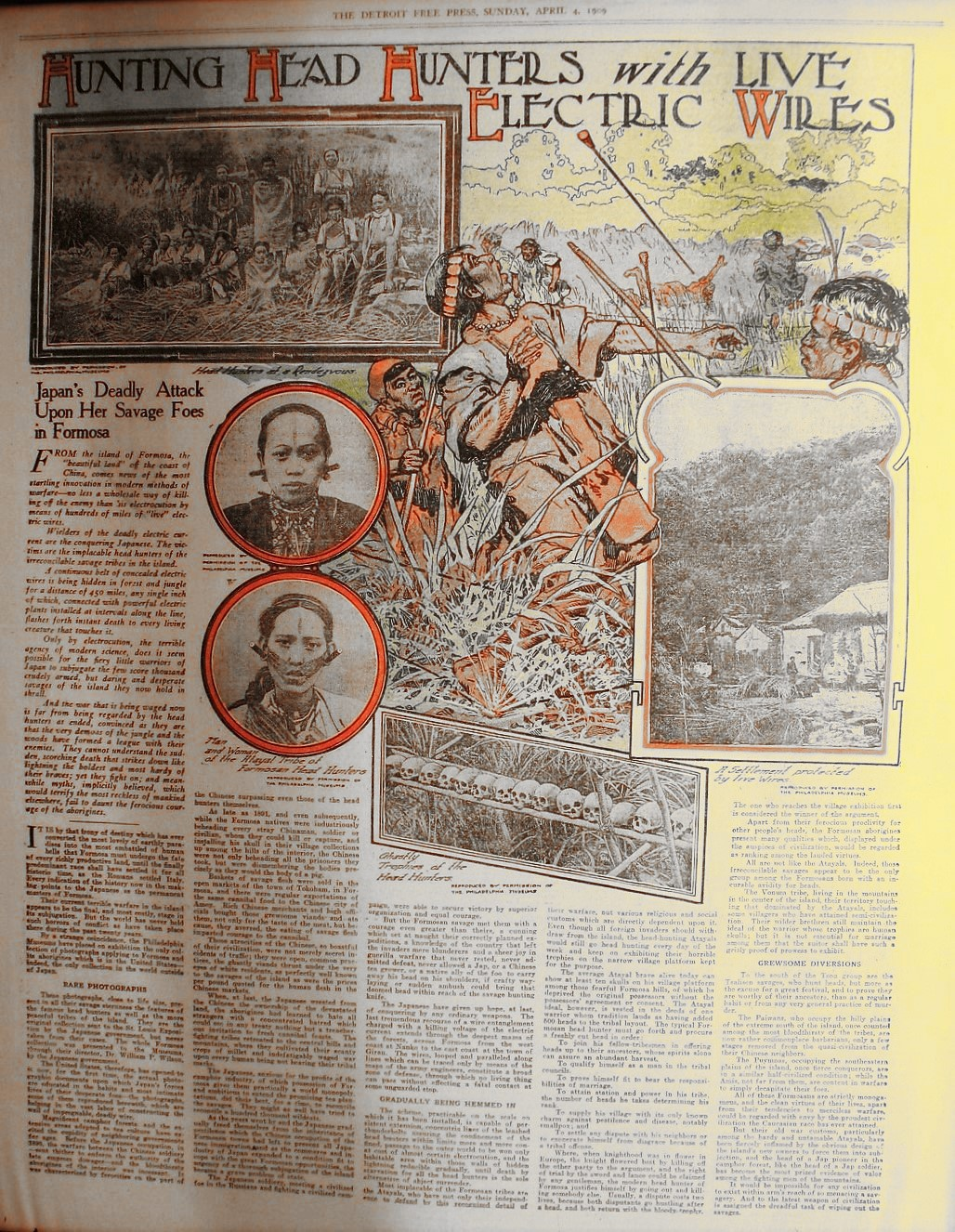 "Hunting Head Hunters with Electric Wires",by The Detroit Free Press.